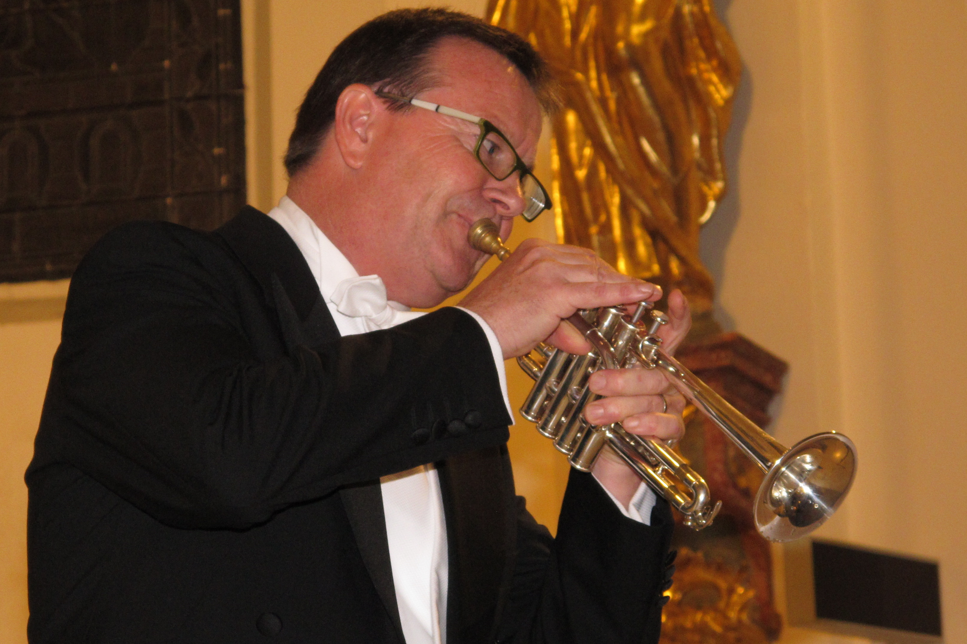 The Viennese trumpeter Leonhard Leeb (Leebmusic) at an evening concert on 22.05.2010 in the Hill Church Donnerskirchen / Burgenland / Austria / EU. The trumpeter plays a silver Yamaha trumpet, wearing a black coat with white fly (bow tie) and a pair of glasses from JFREY (Eyewear Design). In the background a part of a statue can be seen that sparkles.